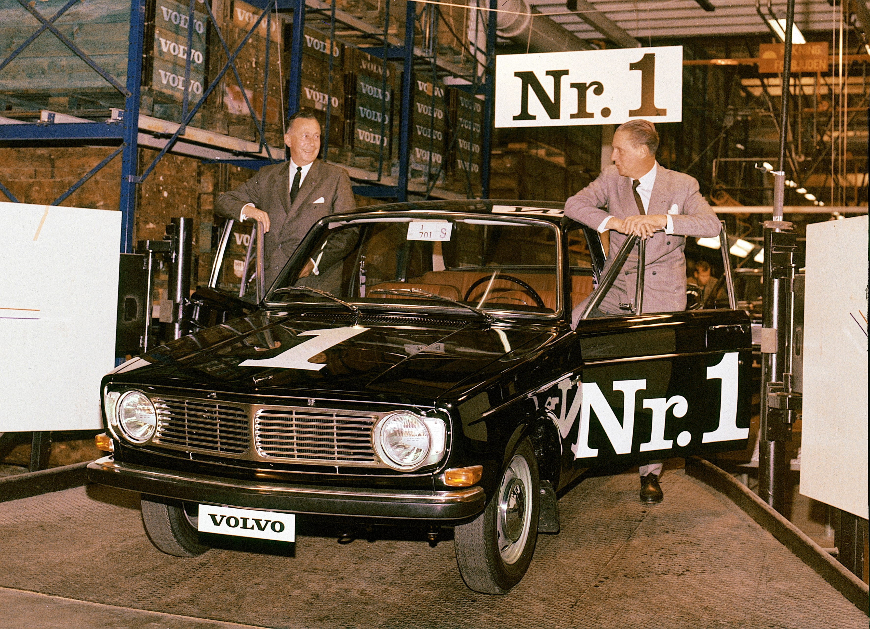 The first Volvo 144 to roll off the production line at Torslandaverken, Volvo's main assembly plant, in Gothenburg. To the left is Svante Simonsson, Technical Manager of Volvo and to the right is Gunnar Engellau, CEO of Volvo. The 144 became Volvo's first million selling car.